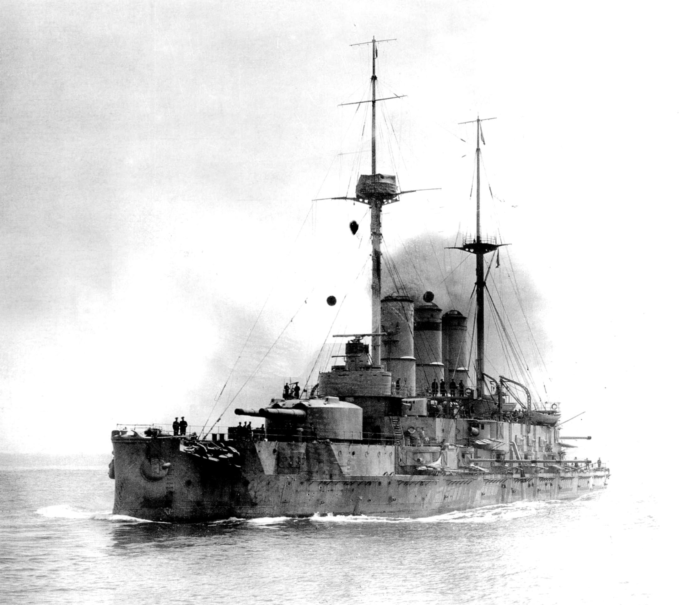 Imperial Russian battleship Ioan Zlatoust.